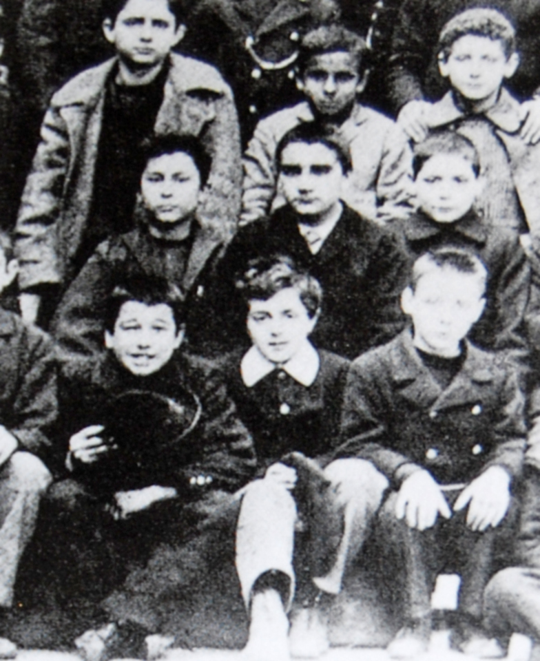 Amedeo Modigliani while at school circa 1890 Modigliani is the boy in the center at the front line.